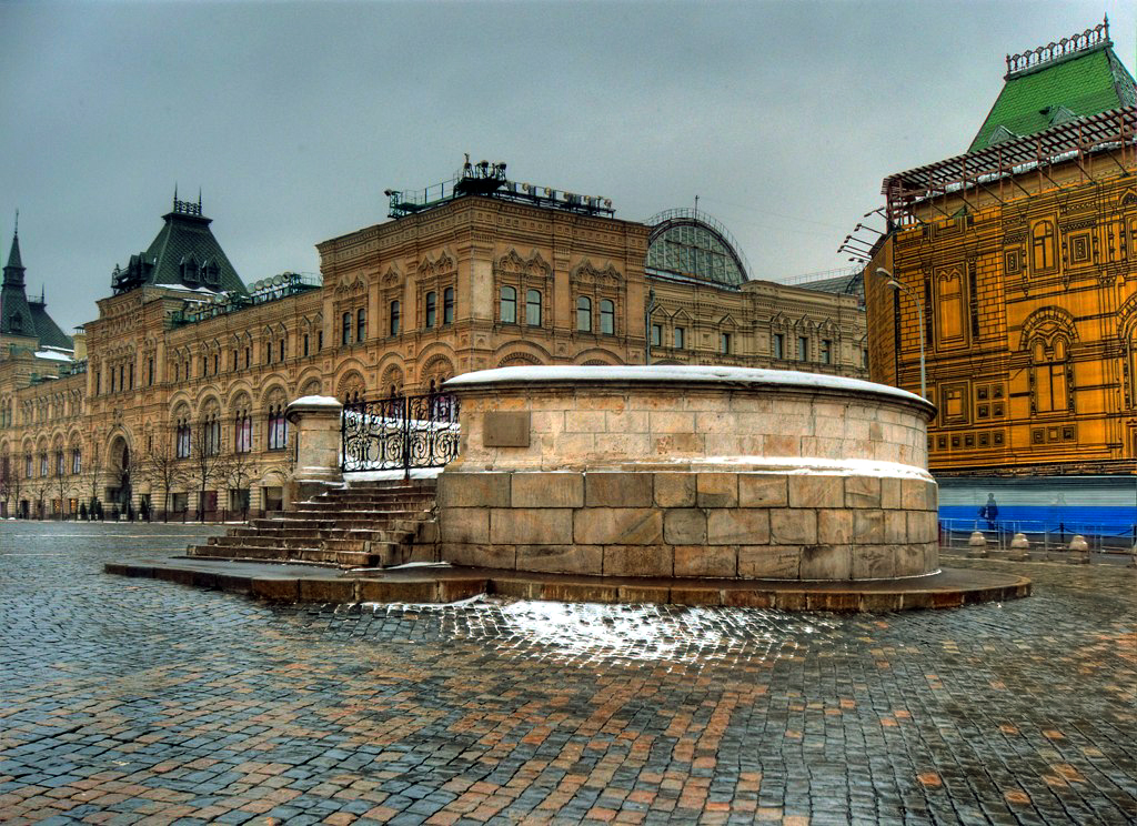 Place of Skulls